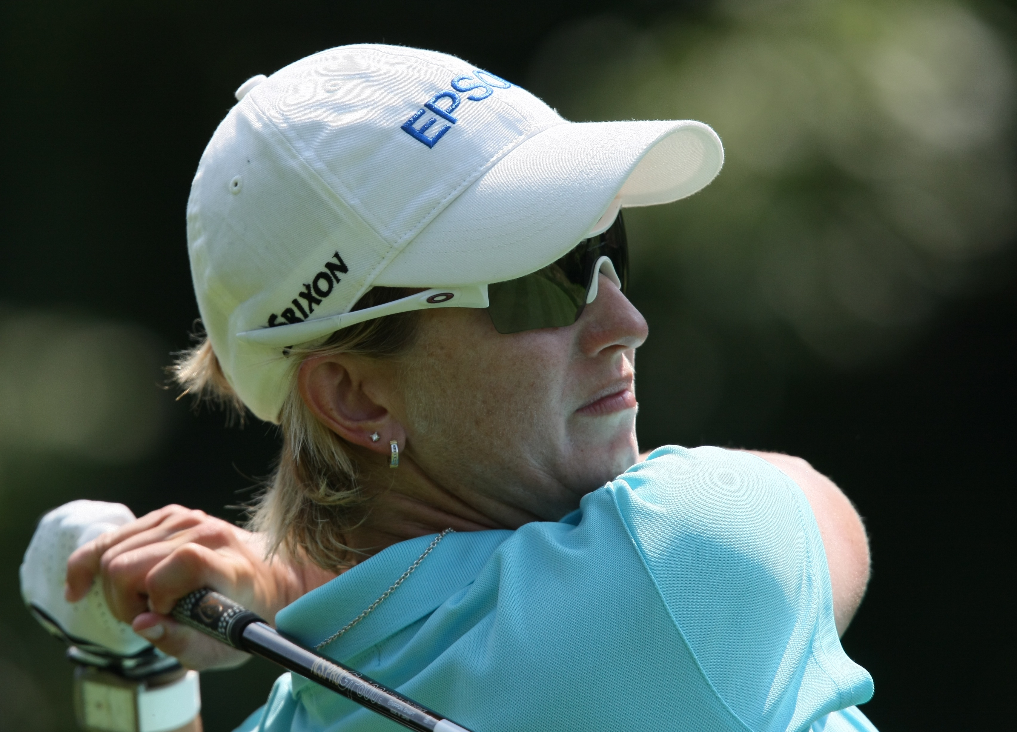 HAVRE DE GRACE, MD - JUNE 09: Karrie Webb (AUS) during Pro-Am before 2009 LPGA Championship held at Bulle Rock Golf Course, on June 9, 2009 in Havre de Grace, Maryland. (Photo by Keith Allison)